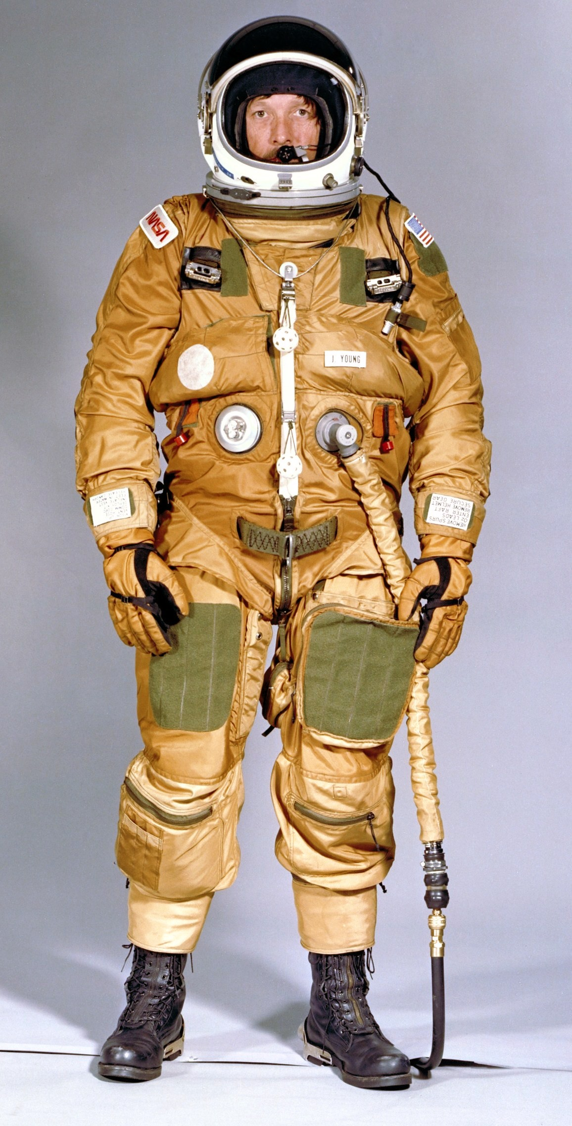 When the first shuttle flight, STS-1, lifted off on April 12, 1981, astronauts John Young and Robert Crippen wore the ejection escape suit modeled here. It's a modified version of a U.S. Air Force high-altitude pressure suit.